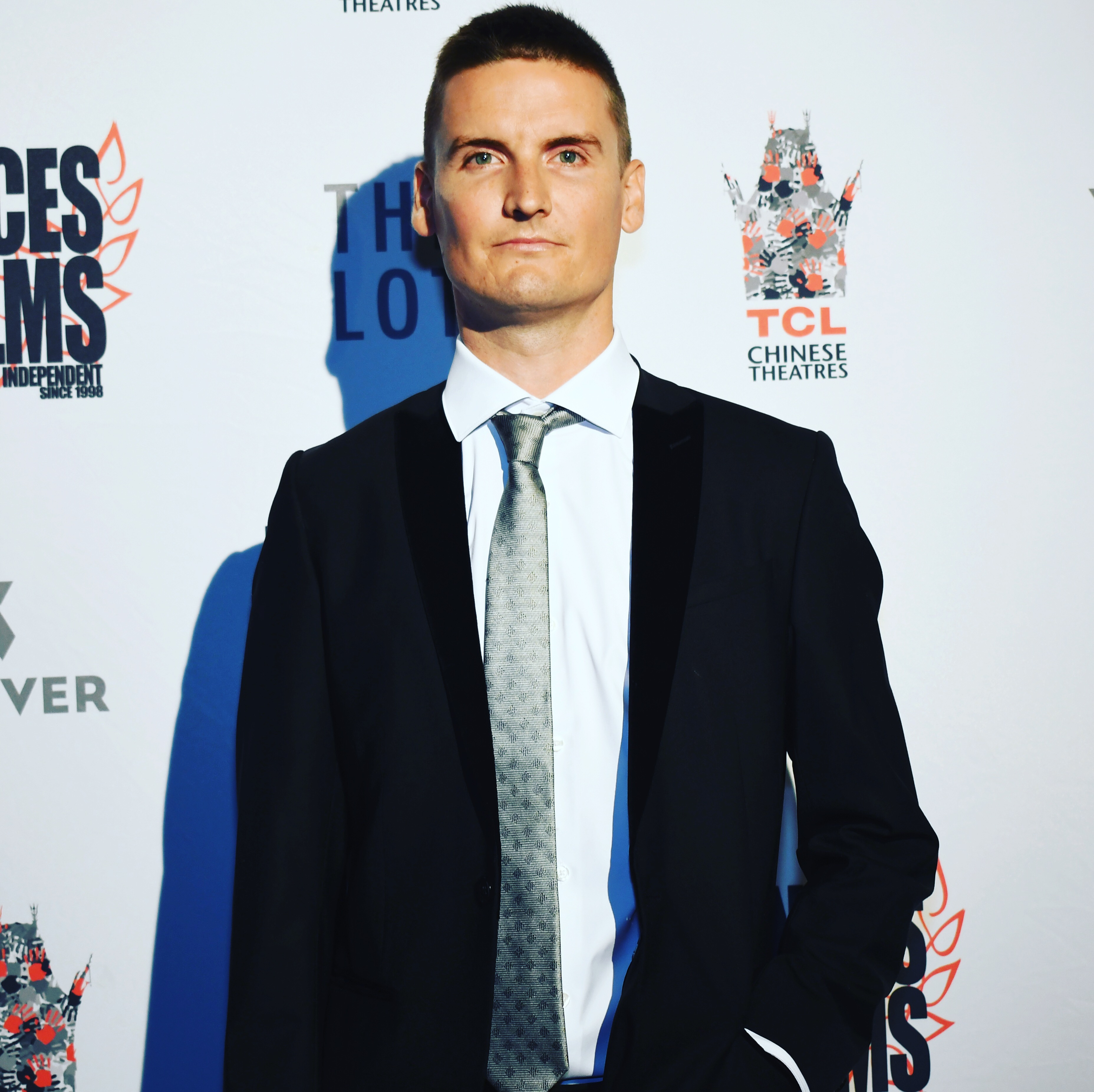 Barnes attends the Adolescence Premiere at the Grauman's Chinese Theatre in 2019. He is the original screenwriter of the film.